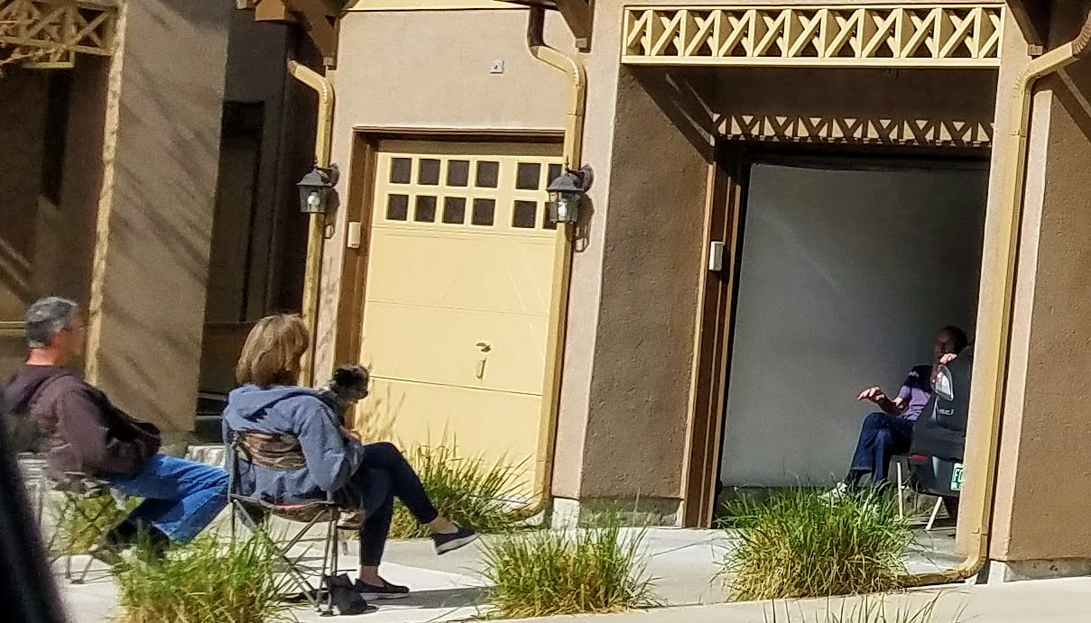 Social distancing in the Dancing Willows neighborhood.